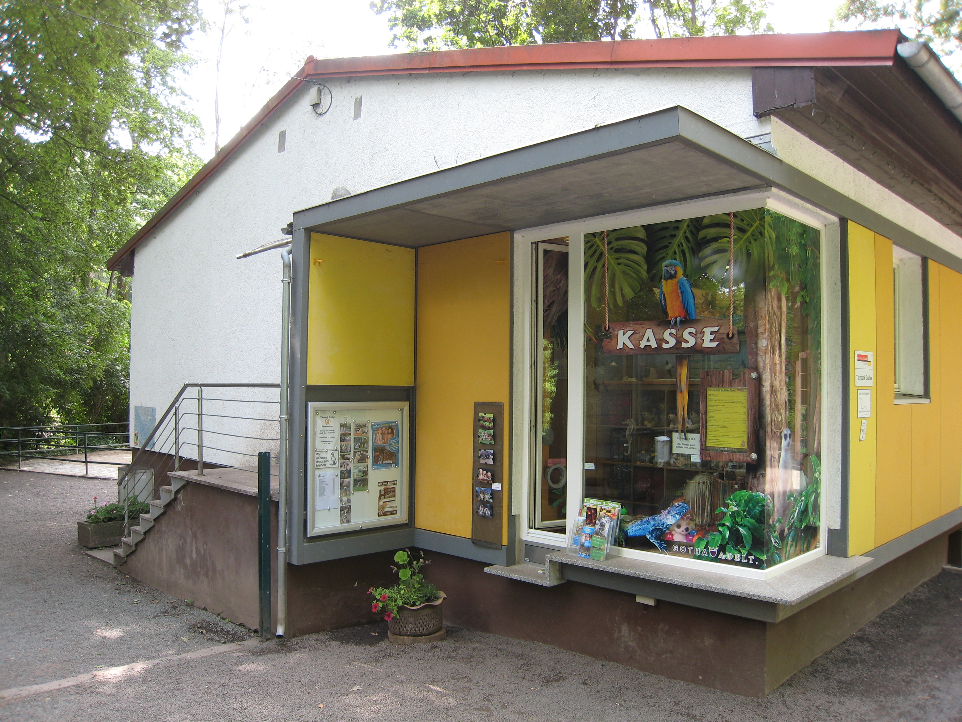 Tierpark Gotha, entrance to the zoo